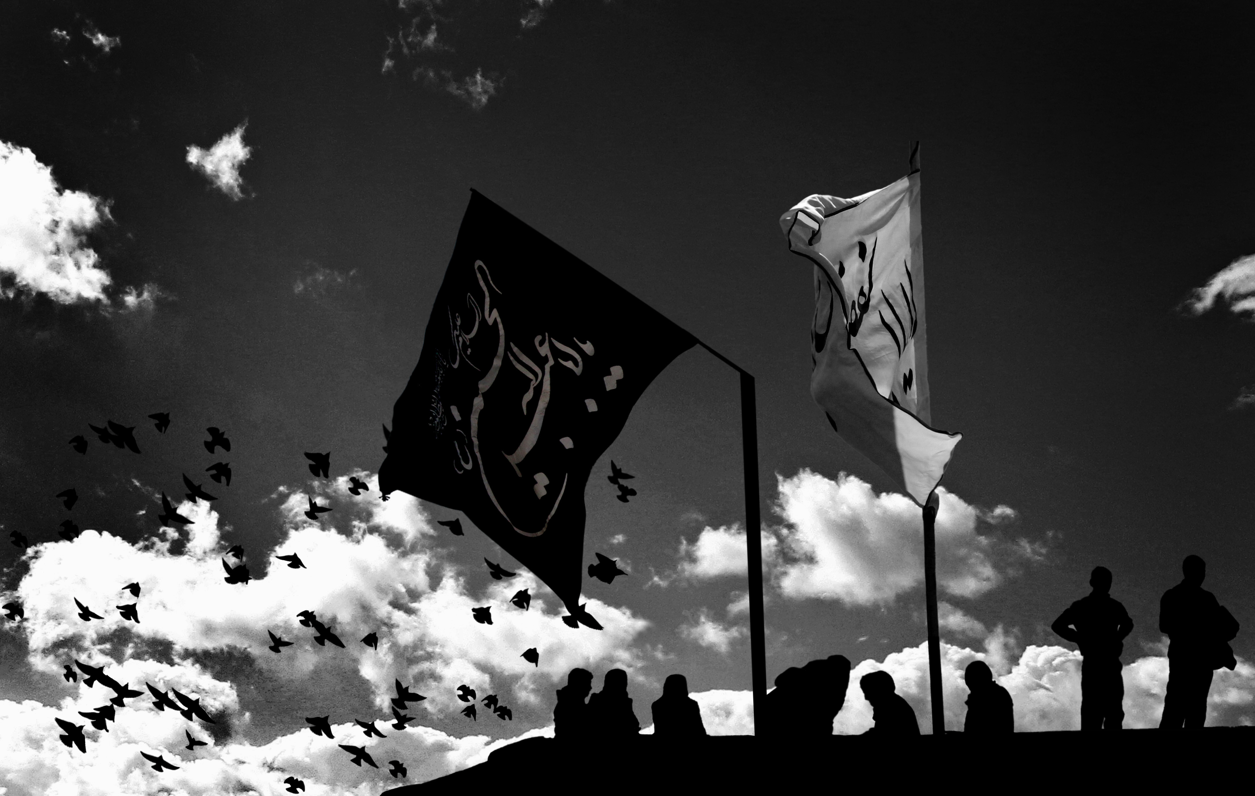 Mourning of Muharram is held in majority of cities and villages in Iran by Shia Muslims annually. Although all sort of ceremonies are performed for Imam Hossein and his followers martyrdom remembrance, they have different styles and rules referring to various cultures.